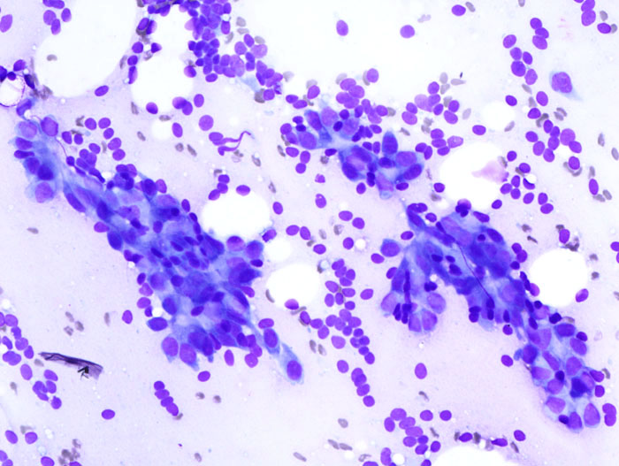 Breast fibroadenoma by FNAC stained with Diff-Quik